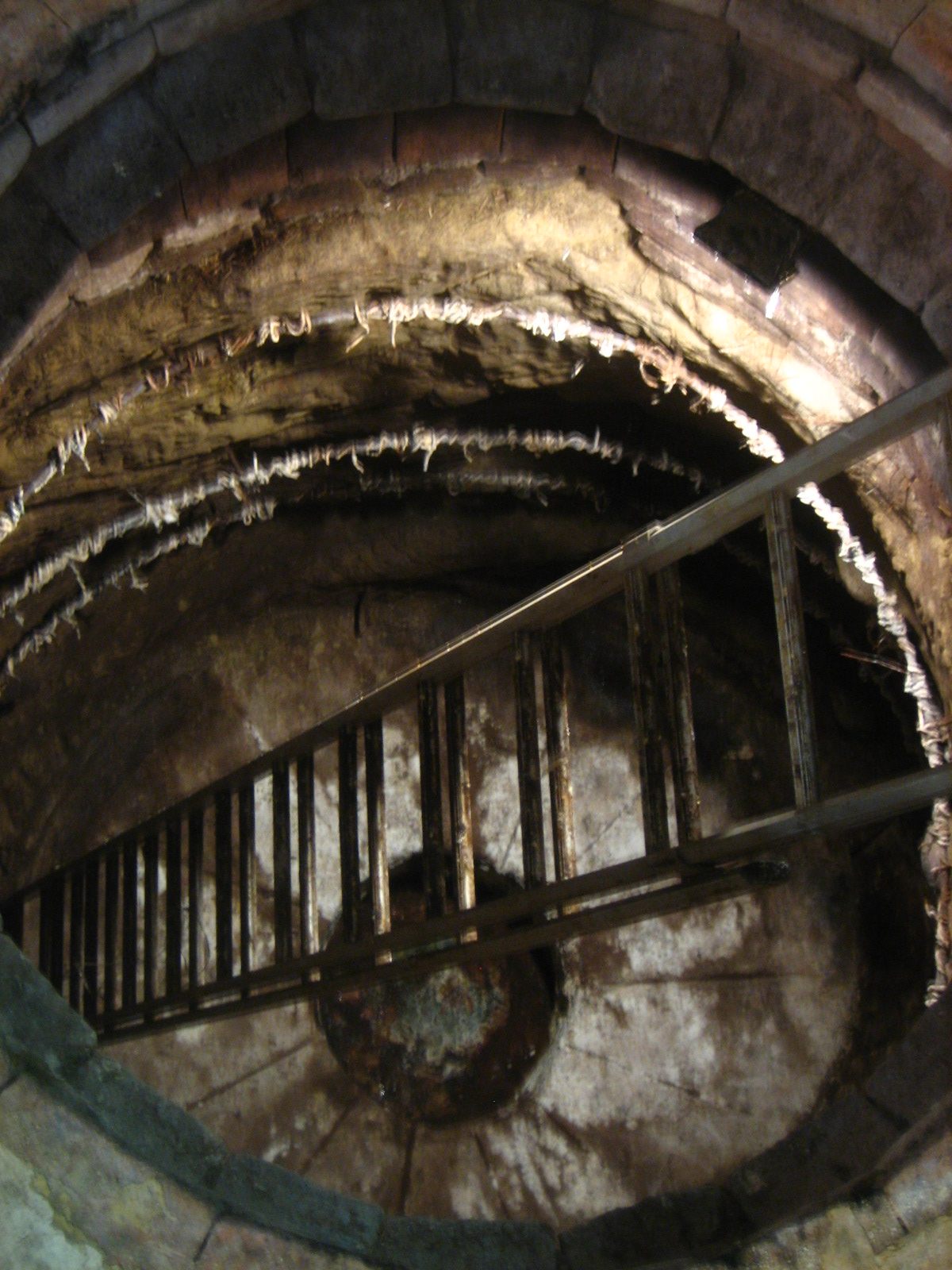 Pit for burying formaggio di fossa in Sogliano al Rubicone.